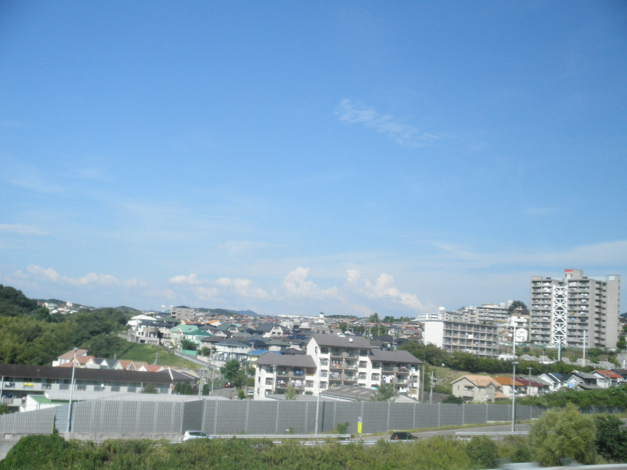 Momoyamadai Tarumi-ku Kobecity Hyogopref stand background